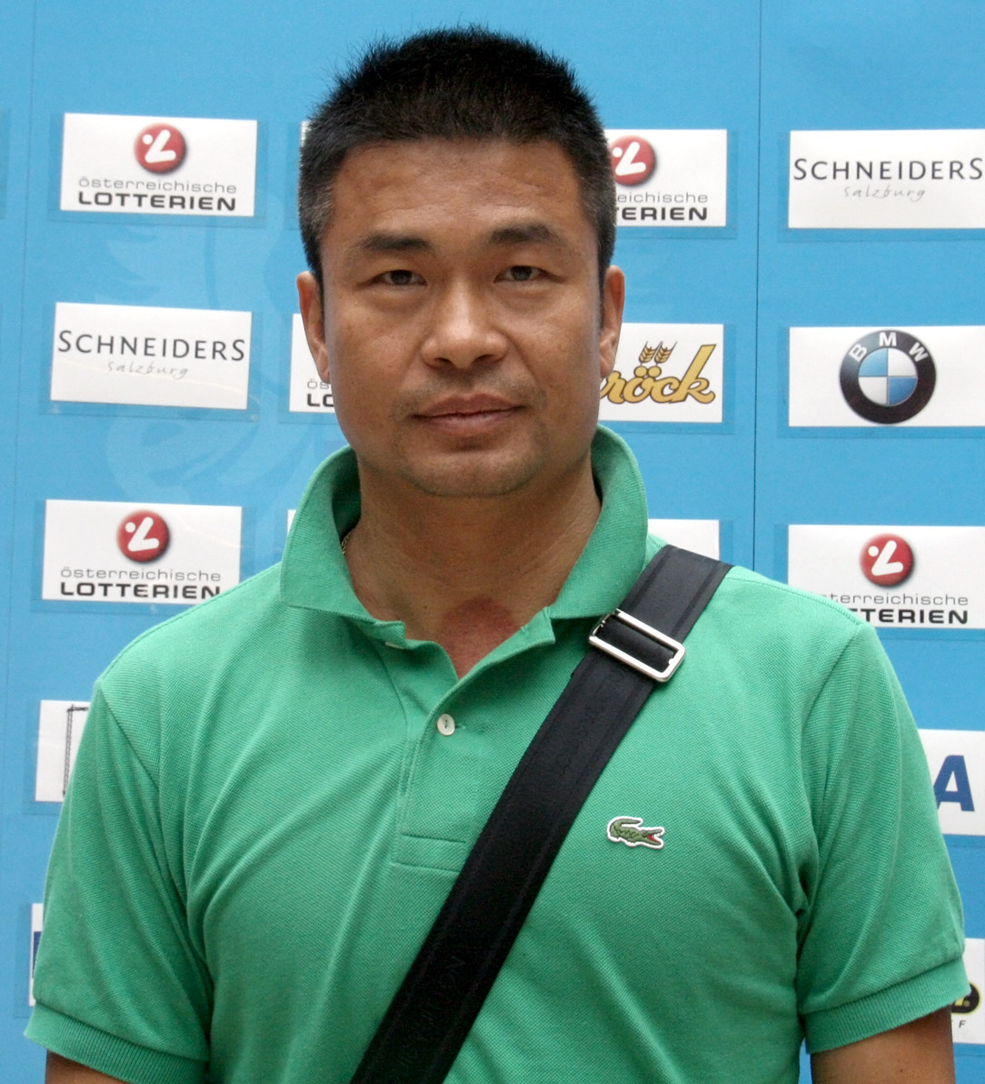 Table tennis player Weixing Chen at the hand-out of the Austrian teams official attire for the 2012 Summer Olympics in London (Marriott, Vienna).